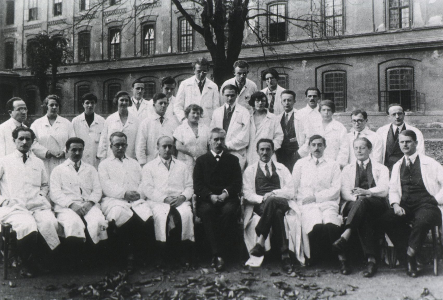 Julius Wagner-Jauregg's staff in 1927. Front row (left to right): Max Weissmann, Bernhard Dattner, Heinrich Kogerer, Heinrich Herschmann, Julius Wagner-Jauregg, Josef Gerstmann, Paul Schilder, Heinz Hartmann, Otto Kauders. Second row (left to right): Erwin Stengel, Edith Vincze, Lydia Sicher, Annie Reich, Ludwig Horn, Clara Strassky, Robert Stern, Fannie Halpern, Otto Isakower, Alexandra Adler, Hans Hoff, Edward Bibring. Back row (left to right): Gottfried Engerth, Friedrich Stumpfl, Stefan Betlheim, Ludwig Eidelberg, Edith Klemperer, Ernst Haase.